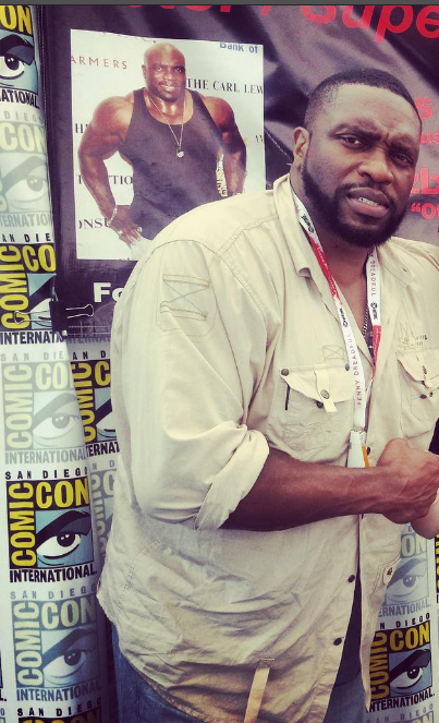 Comic Con 2016 (Prison Break)